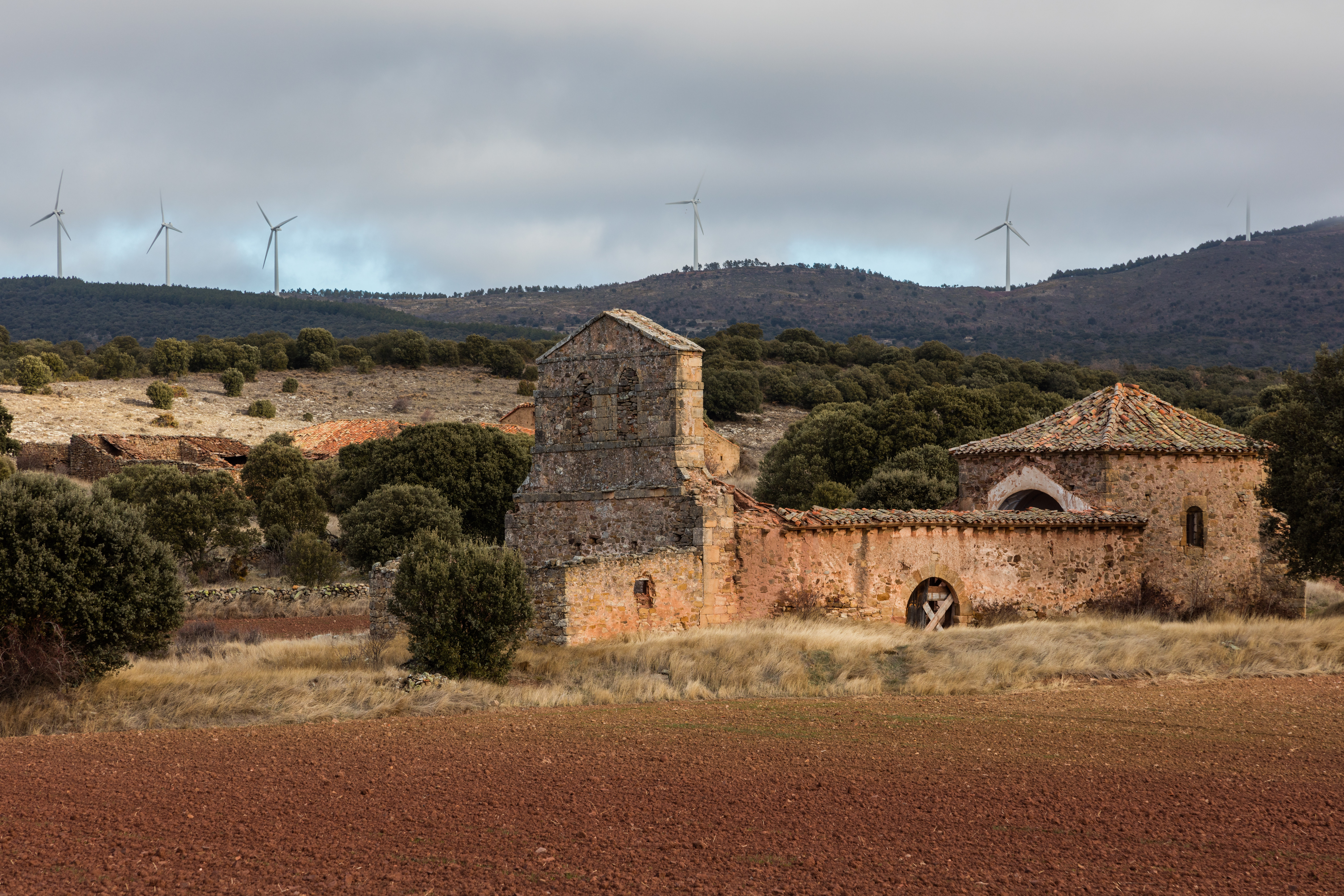 Church of St Just and Pastor, Castellanos del Campo, Soria, Spain